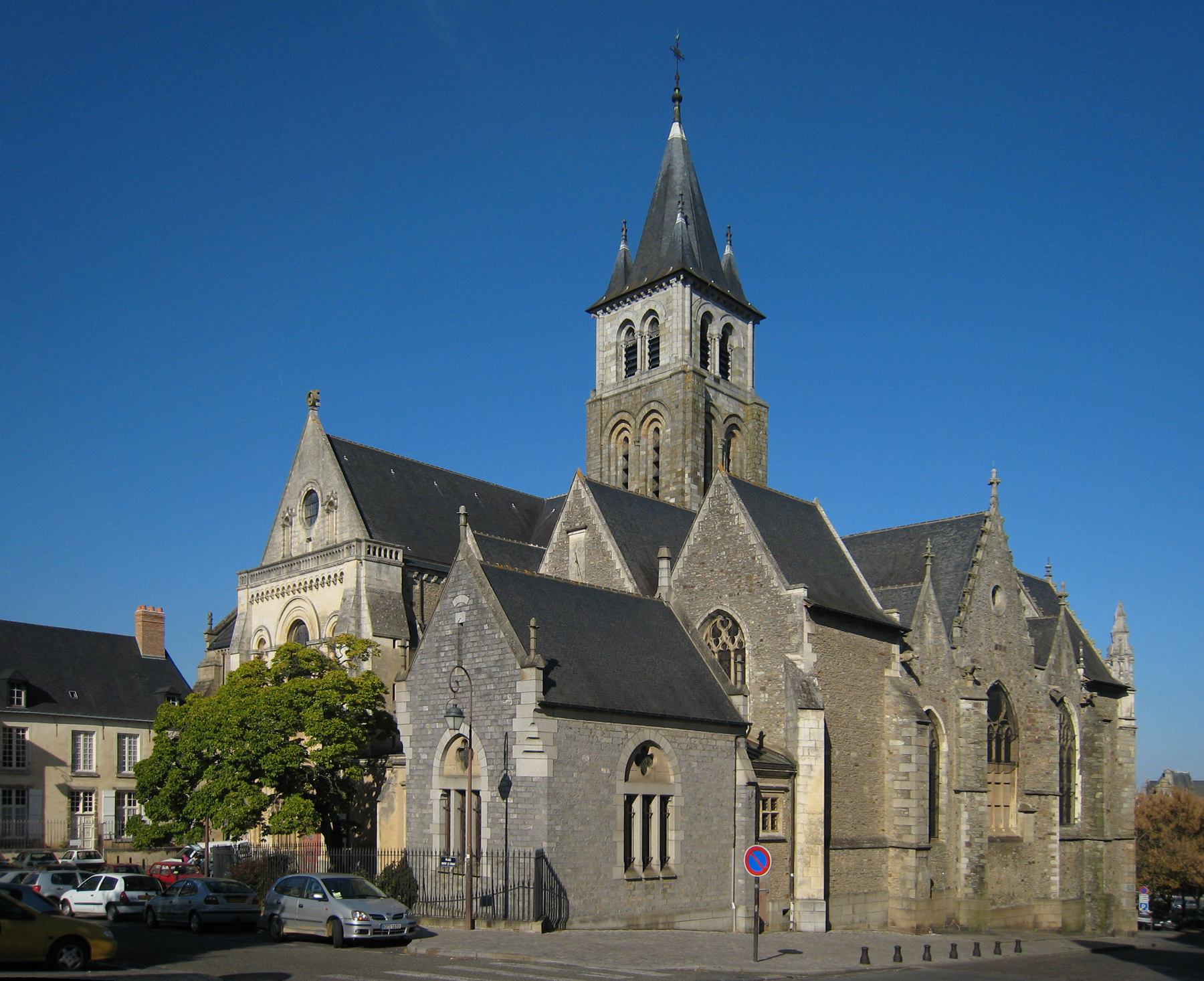 Village of Laval, located on the river Mayenne in the county of Mayenne/France; Cathedral